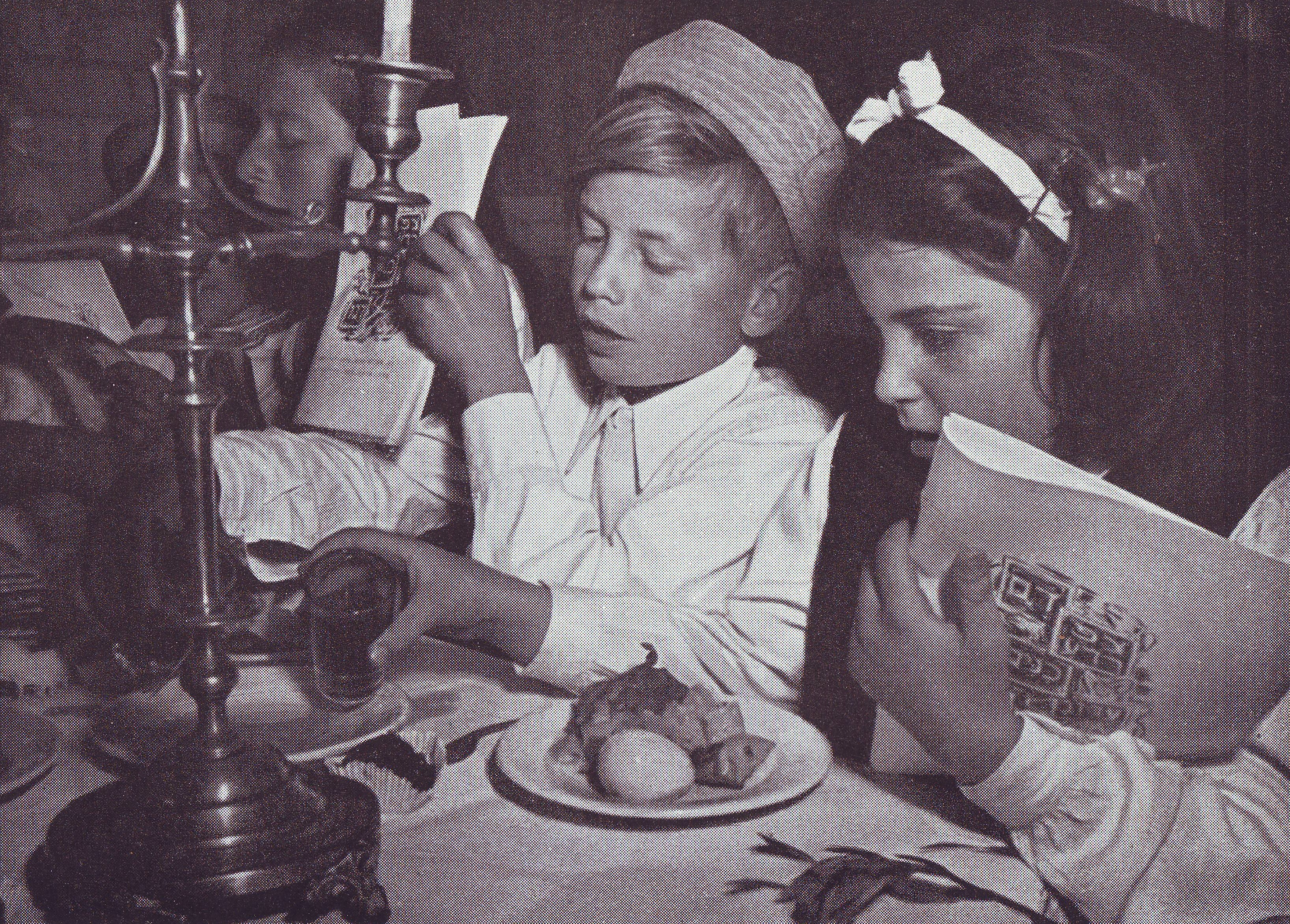 Pasover, Jewish holidays